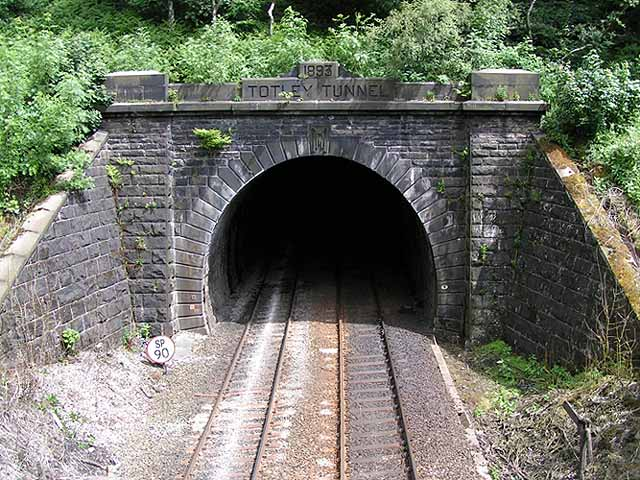 Western portal of Totley Tunnel near Grindleford, Derbyshire. Photograph taken 19th June 2004.